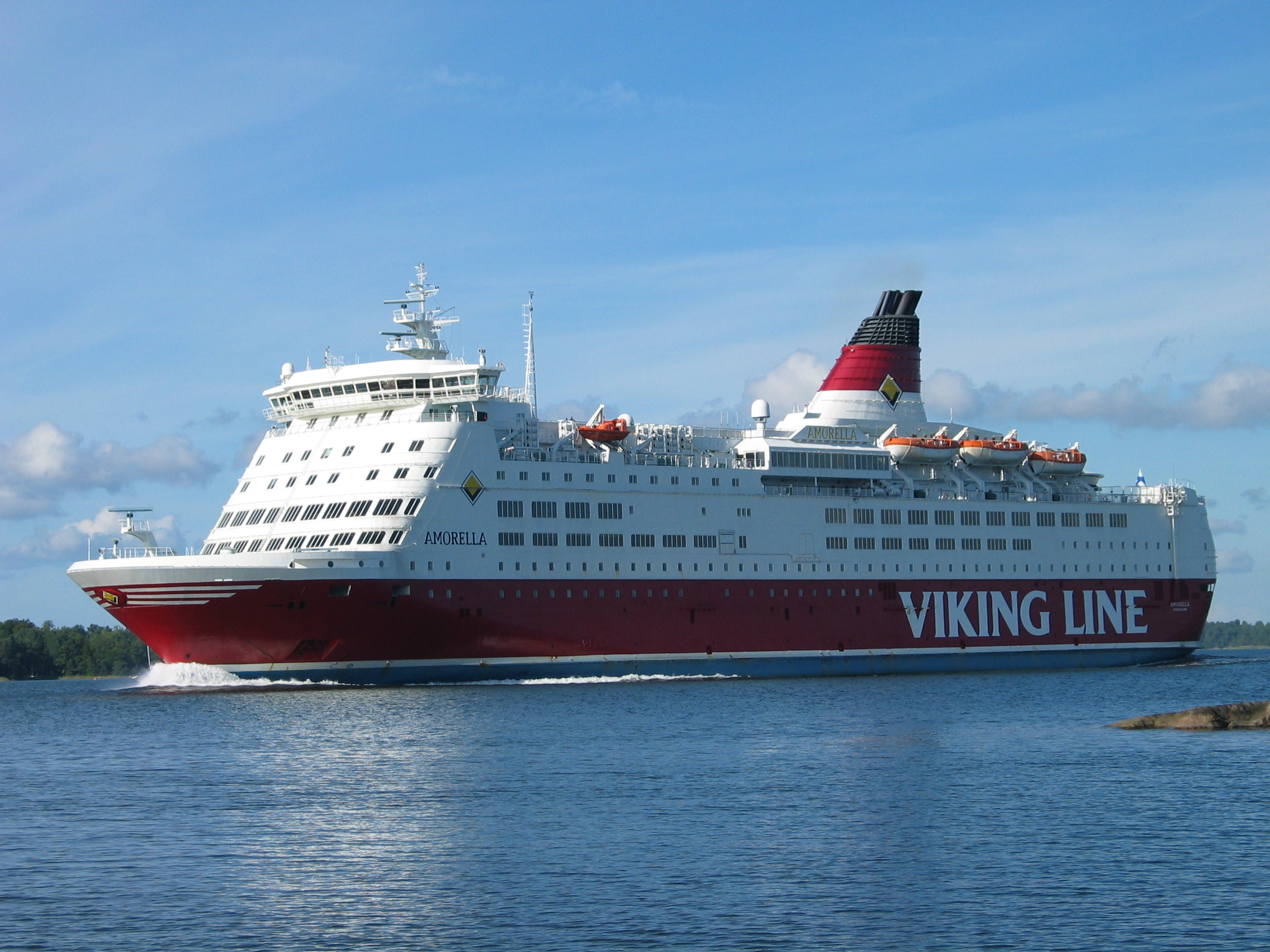 M/S Amorella between Yxlan and the main land, photo taken in Sweden.